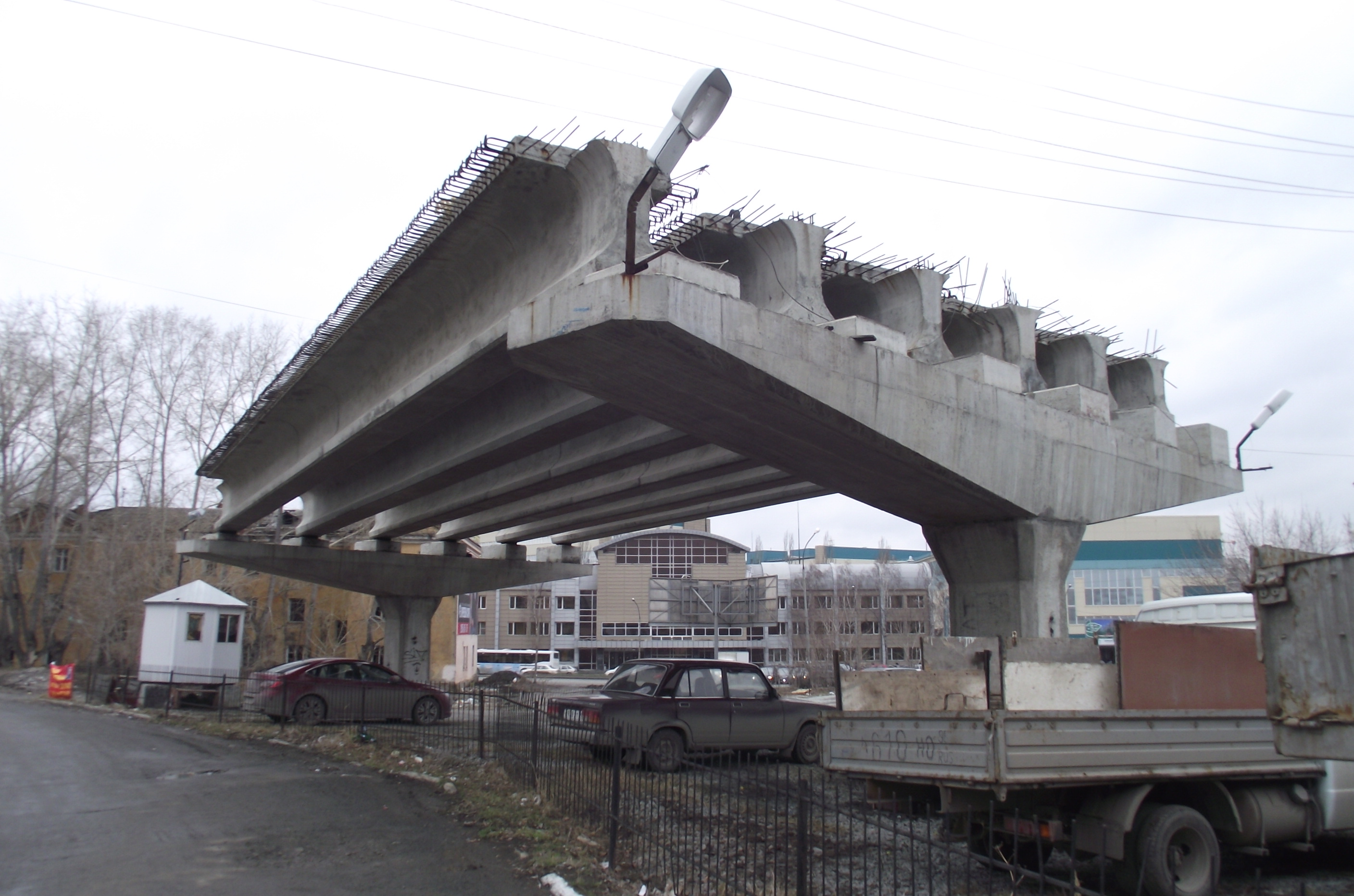 Section of abandoned Kalina Bridge in Yekaterinburg, Russia. April' 2011.